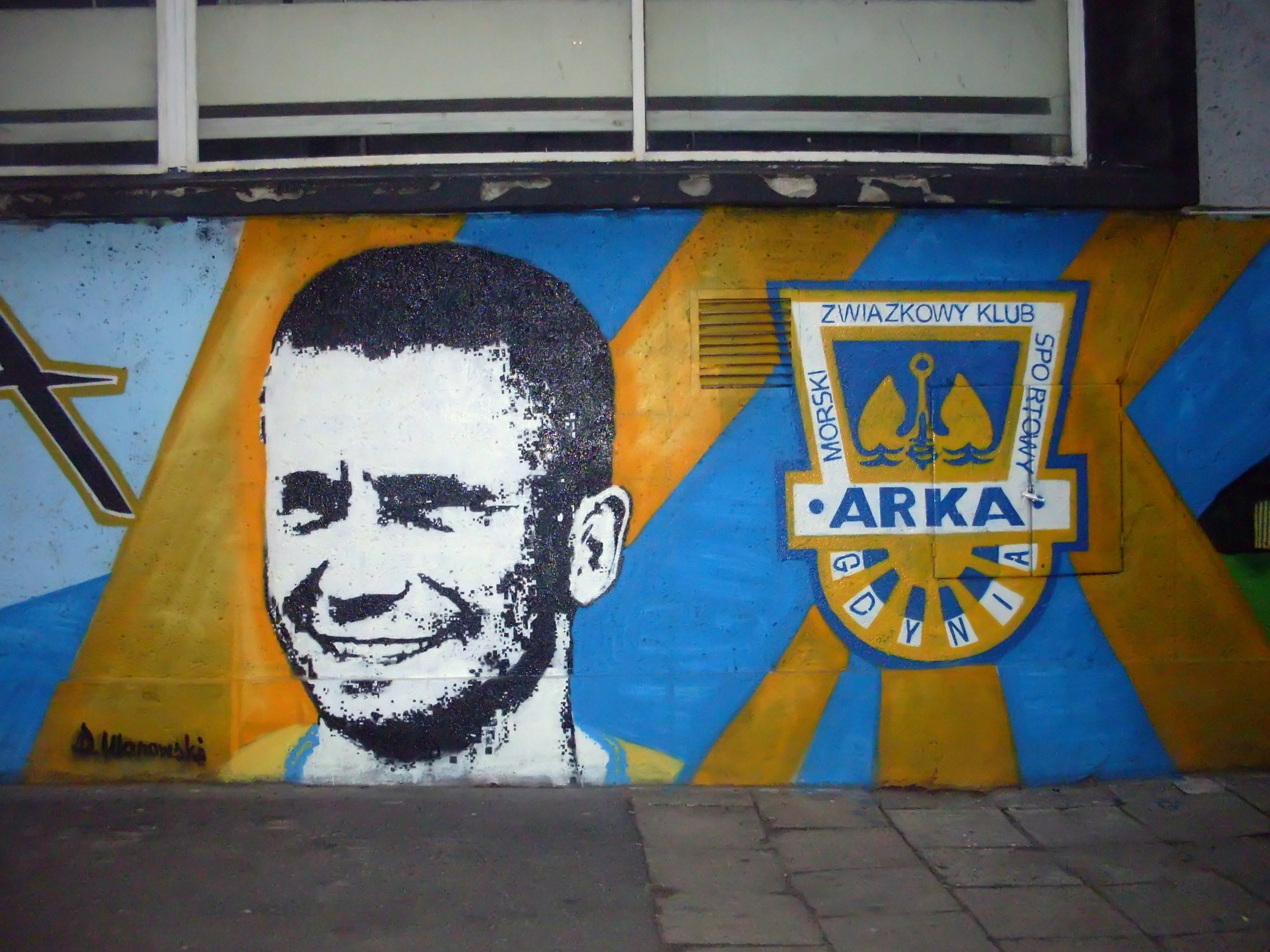 Dariusz Ulanowski and logo of Arka Gdynia at graffiti at ulica Józefa Bema in Gdynia.